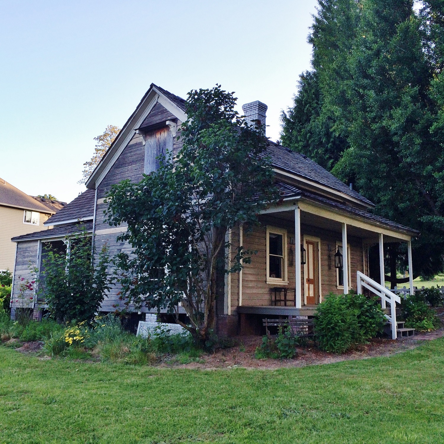 John Stanger House House is now located within the Jane Weber Evergreen Arboretum.